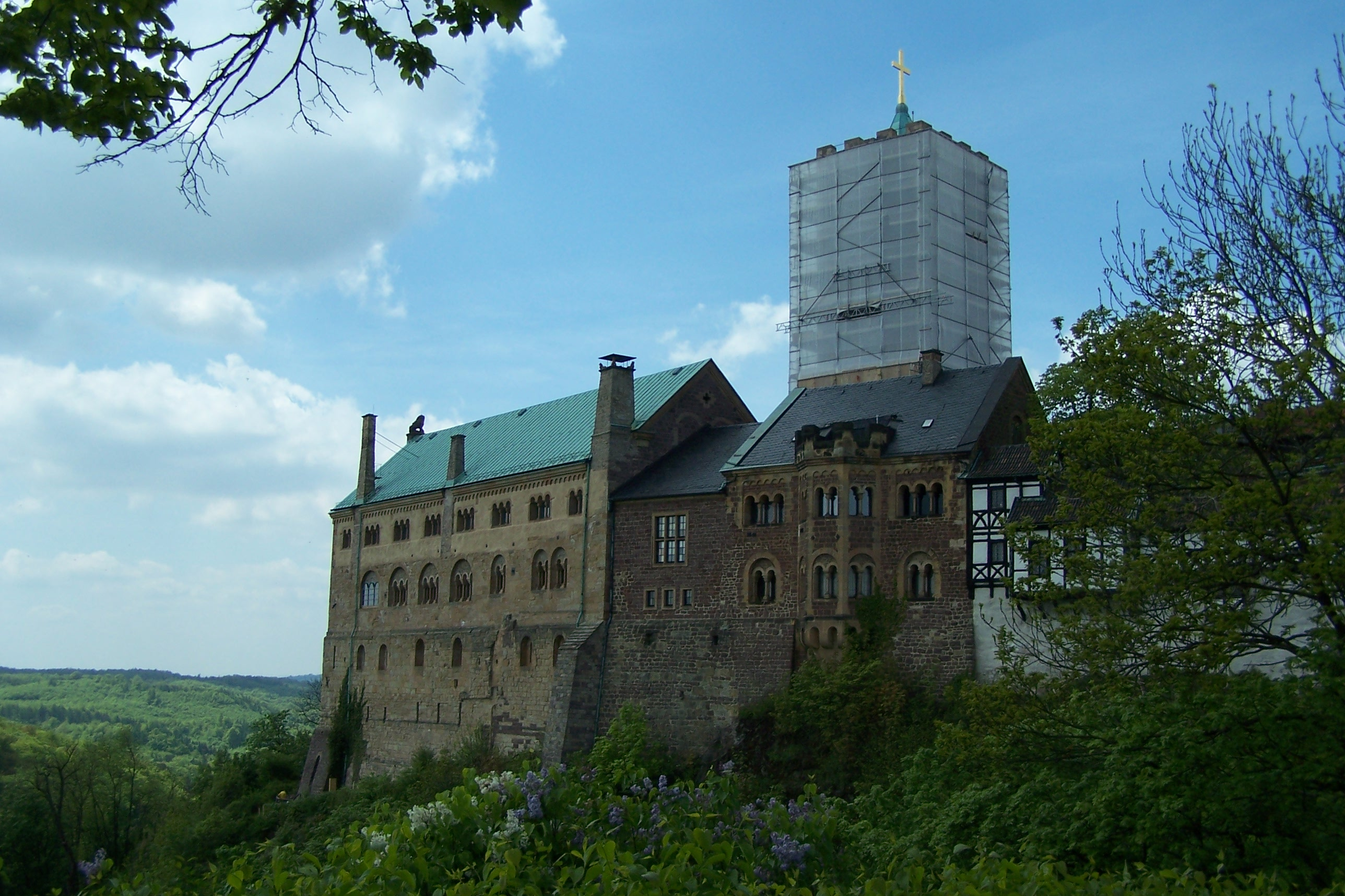 The Wartburg castle.